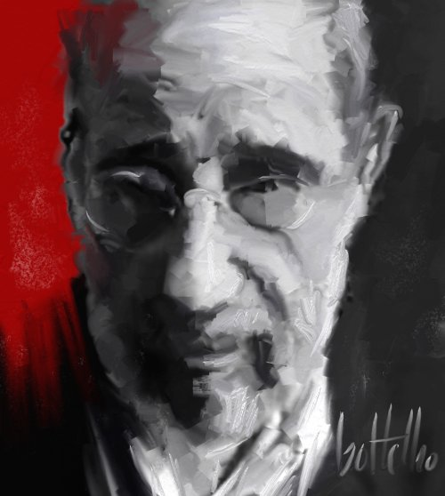 Architect Álvaro Siza Vieira por Bottelho